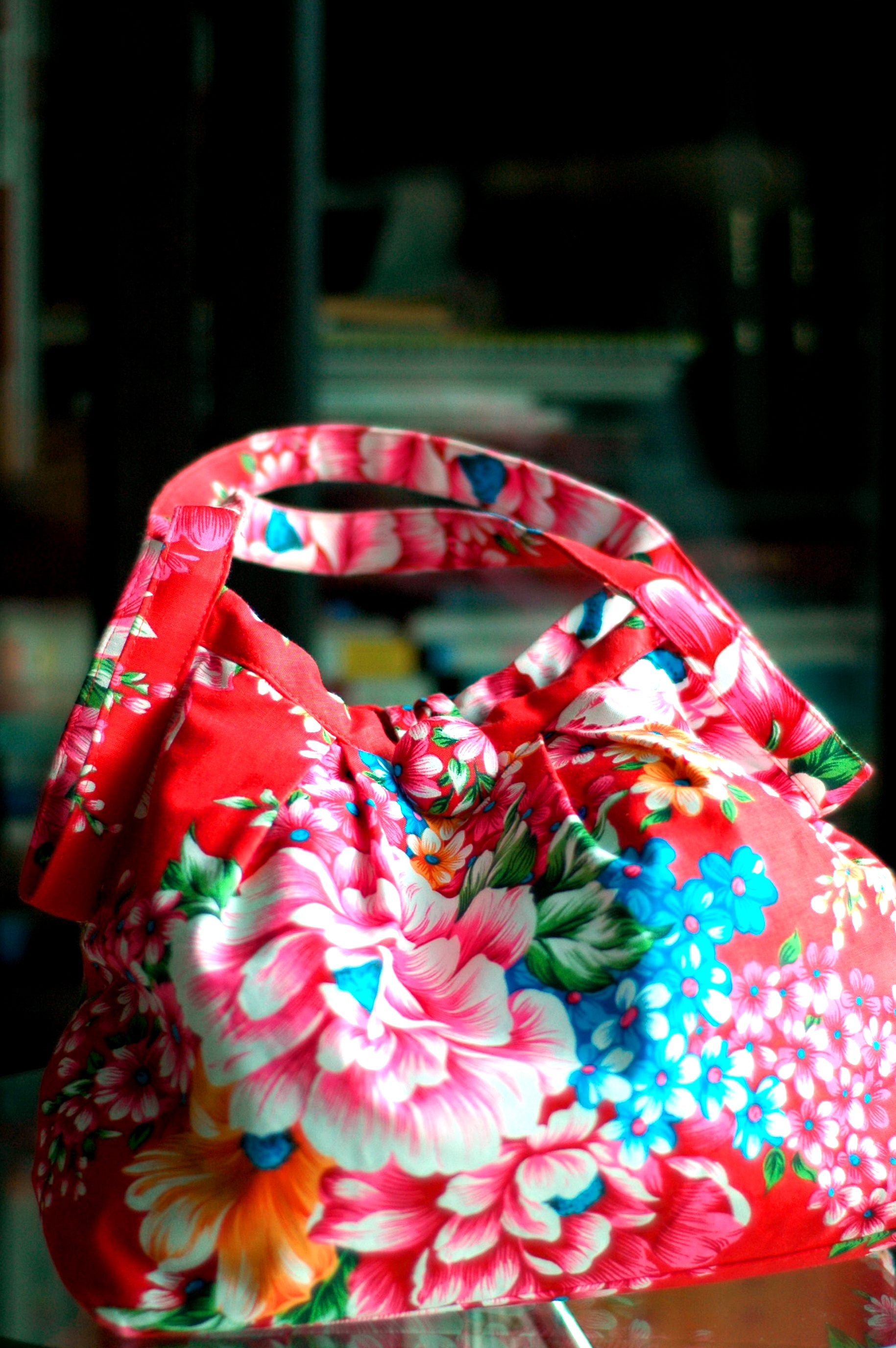 A Hakka-style floral print fabric tote bag.